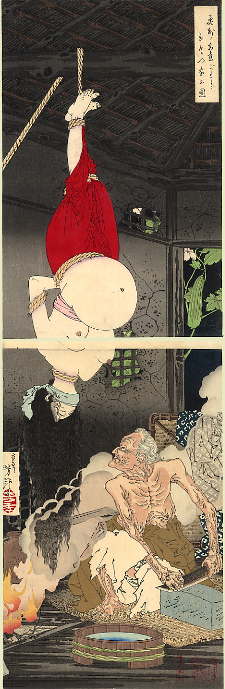 The Lonely House. 9" by 28". The print depicts the Hag of Adachi Moor, who was said to drink the blood of unborn children.